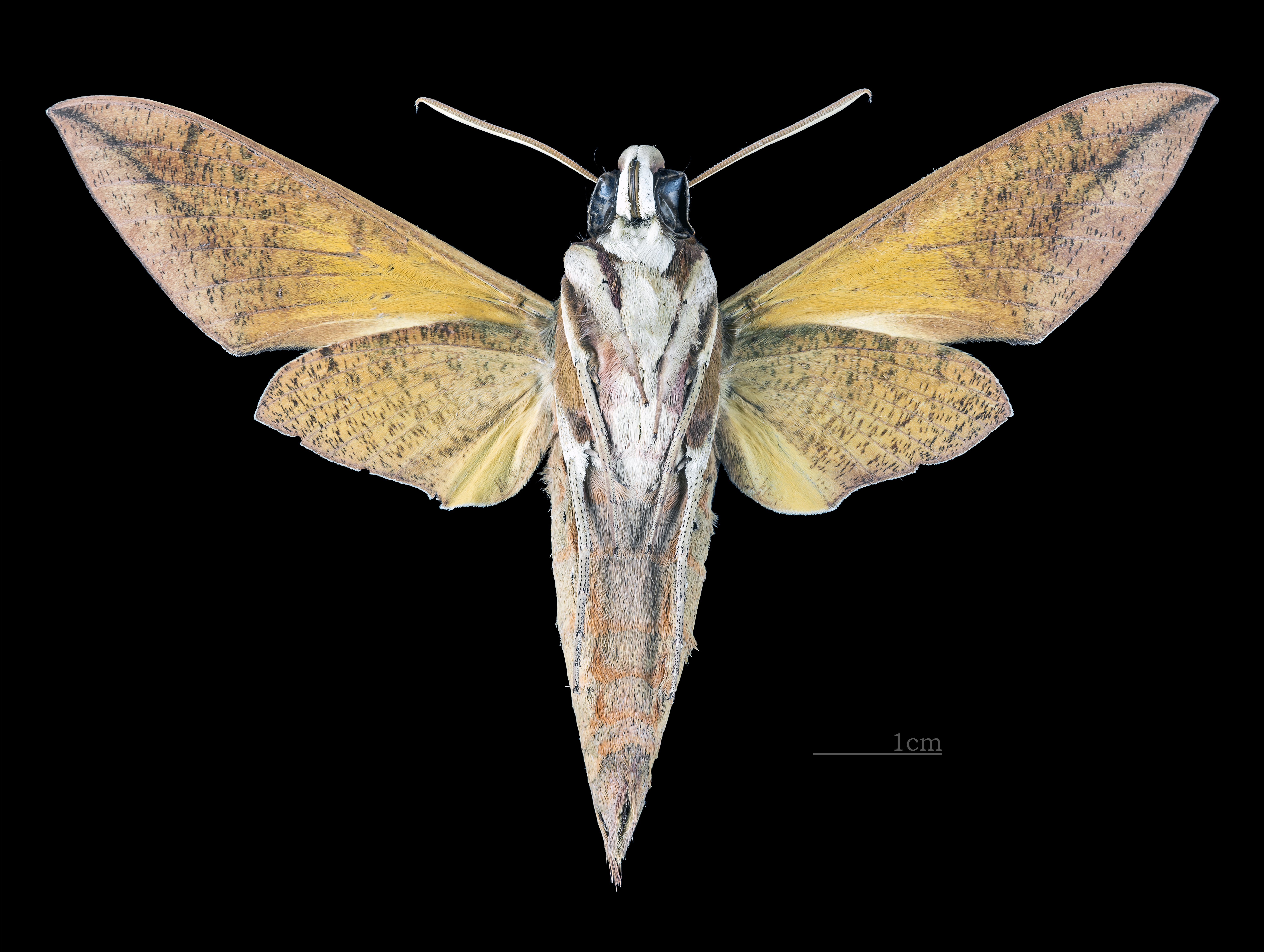 Gnathothlibus eras - △ Ventral side Collection of the Mathematician Laurent Schwartz